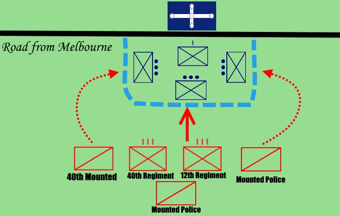 This is an update of Roke's original map, improved to better modern standards.